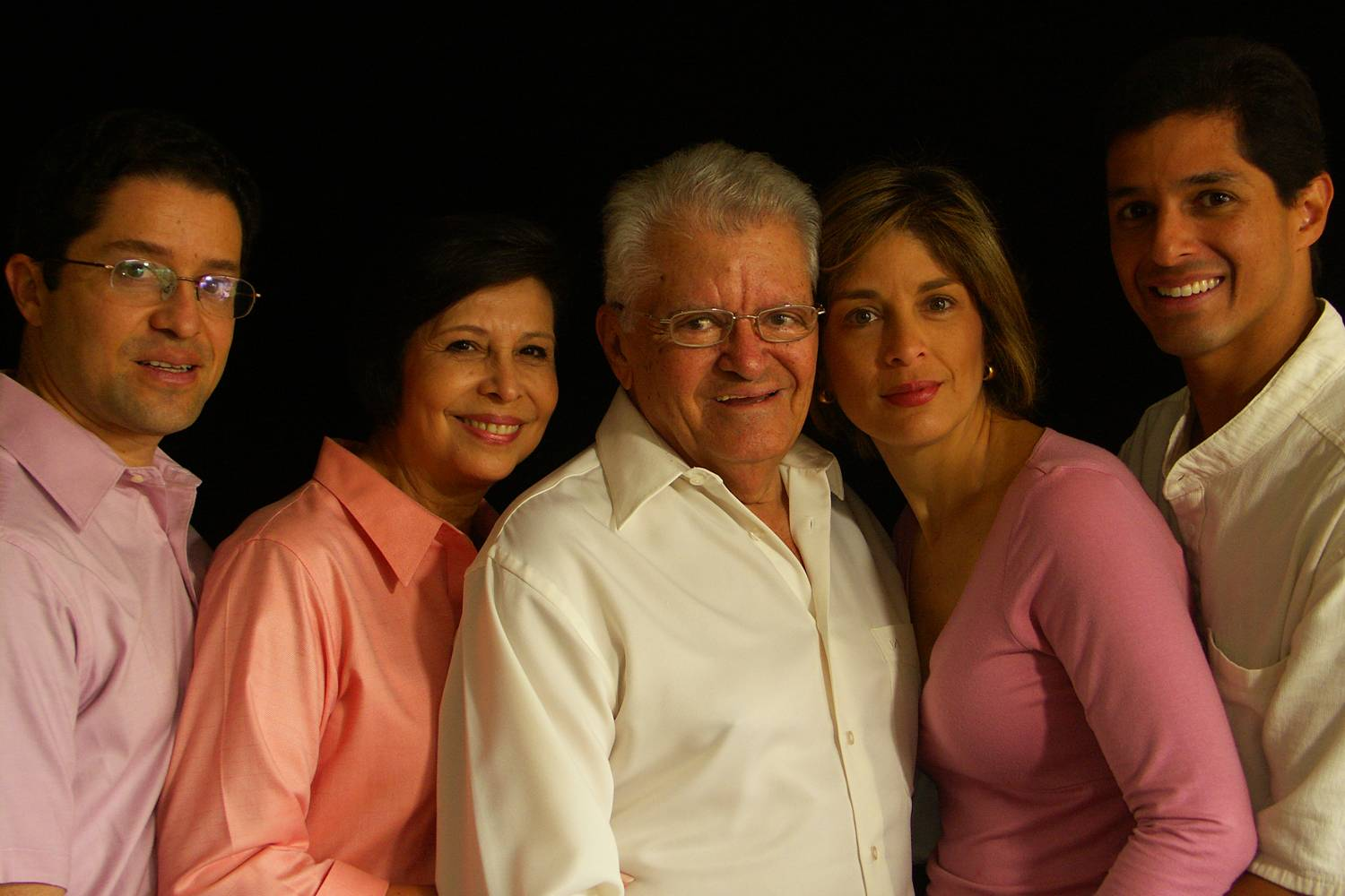 Family picture of Dr. Fernando Bermudez Arias taken Dec-2006